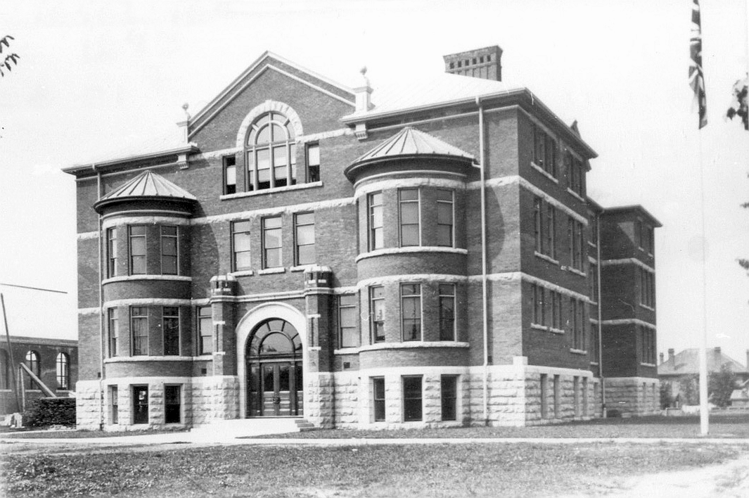 Historic Photo of Peterborough Collegiate Institute circa 1917